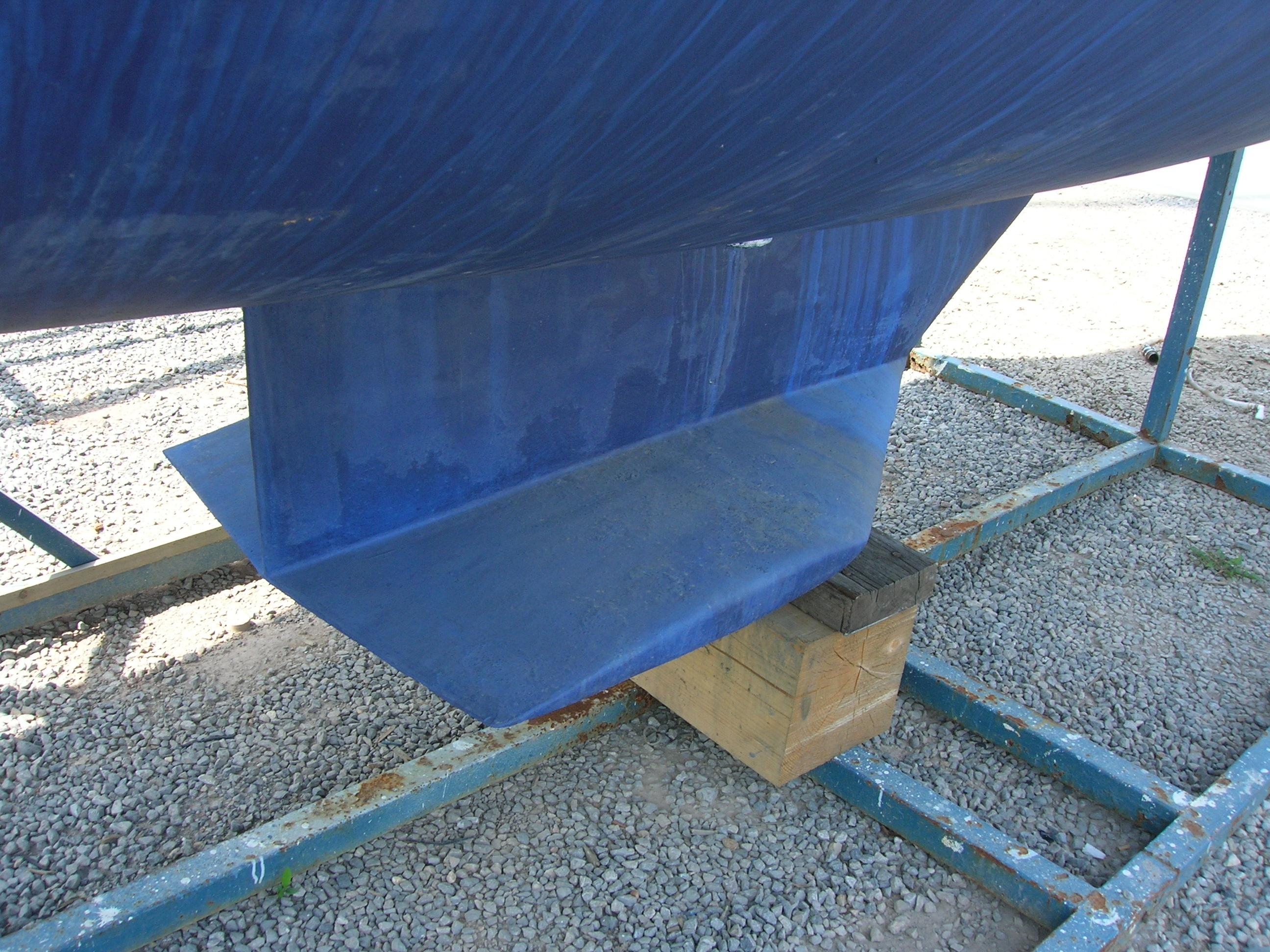 Keel of a sailboat with winglets to improve the lift.